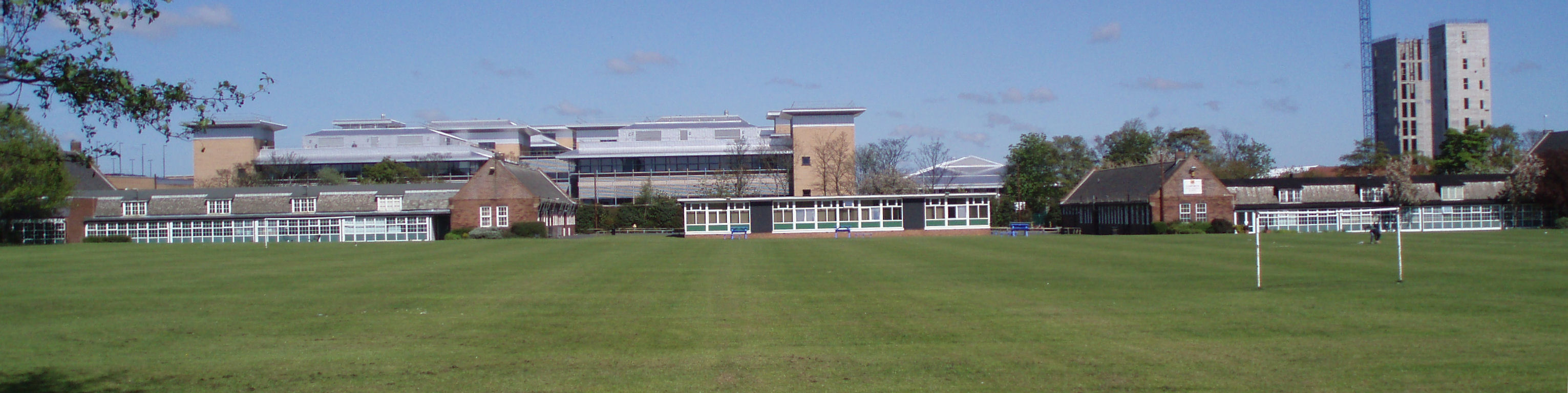 A photograph of Gosforth West Middle (Junior High) School, Gosforth, Newcastle upon Tyne, England. The School buildings are the three in the foreground only. The buildings in the background, including the one under construction, are owned by Northern Rock.